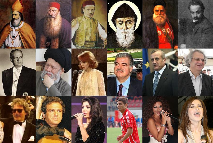 Lebanese people. Anyone can use these original photos themselves among others and make another collage of (Lebanese people) themselves or remix as they wish, as long as they give the correct source and usage/Copyright given. Dont delete the photos, if one becomes unusable due to copyright, please dont delete, just replace the photo or i will.